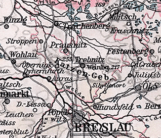 Detail from a map of Silesia.